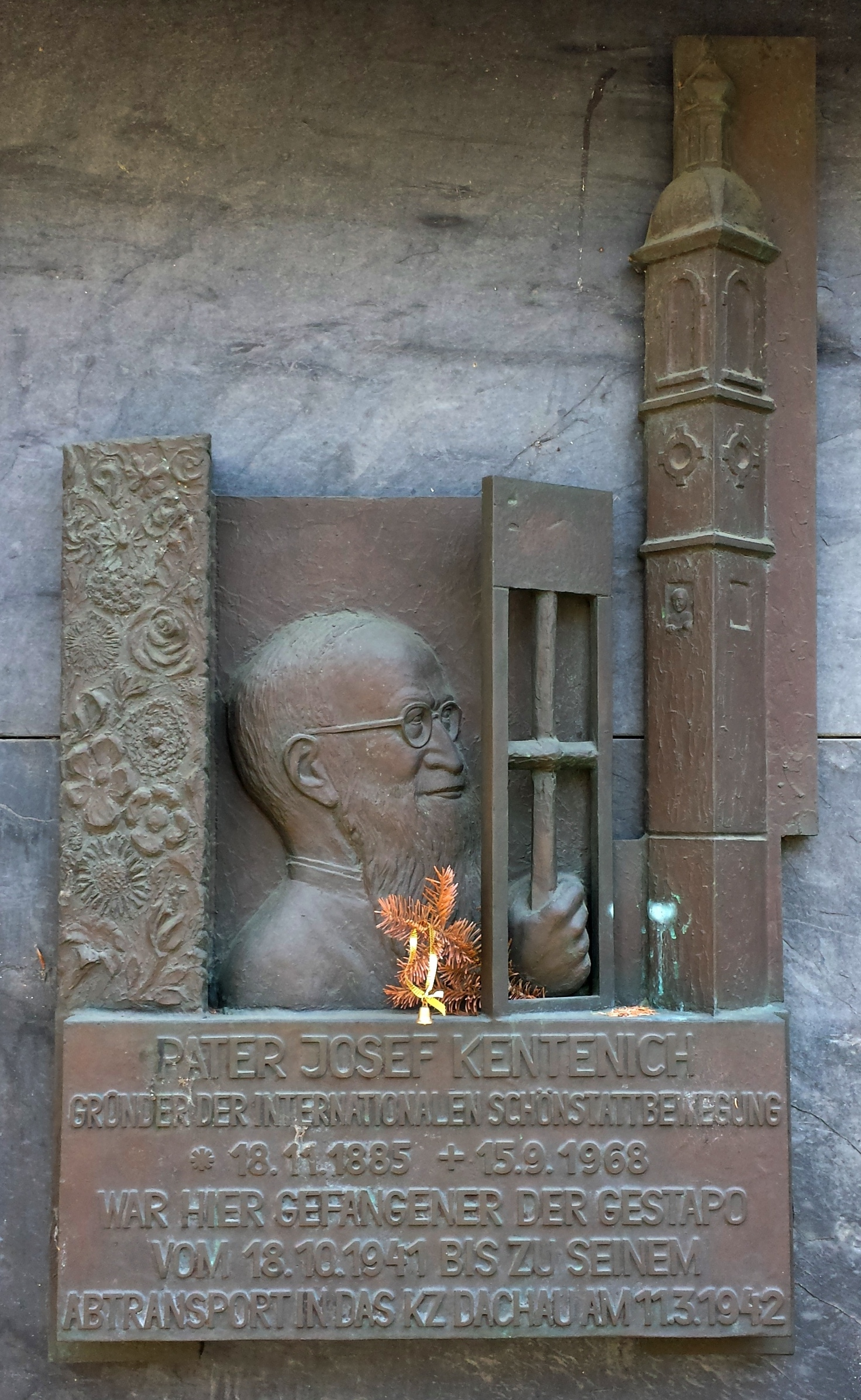 Pater Josef Kentenich memorial plaque in Koblenz